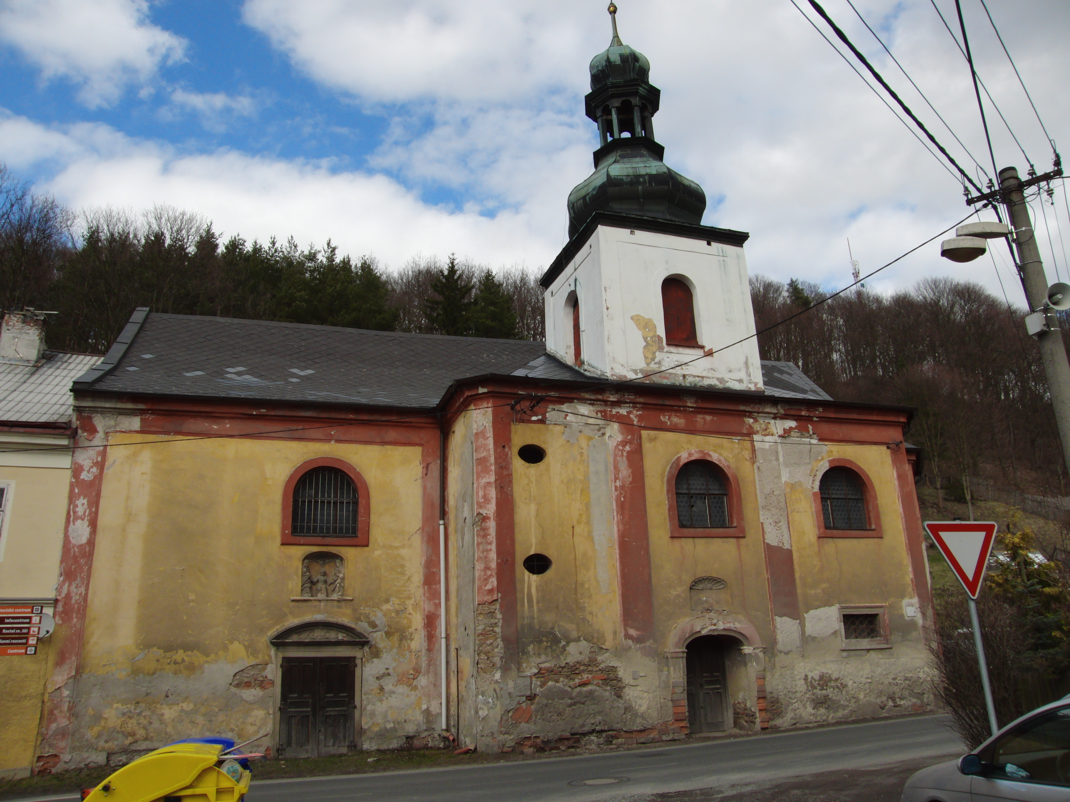 Church of Saint Anne in old part of Horní Slavkov, cultural monument